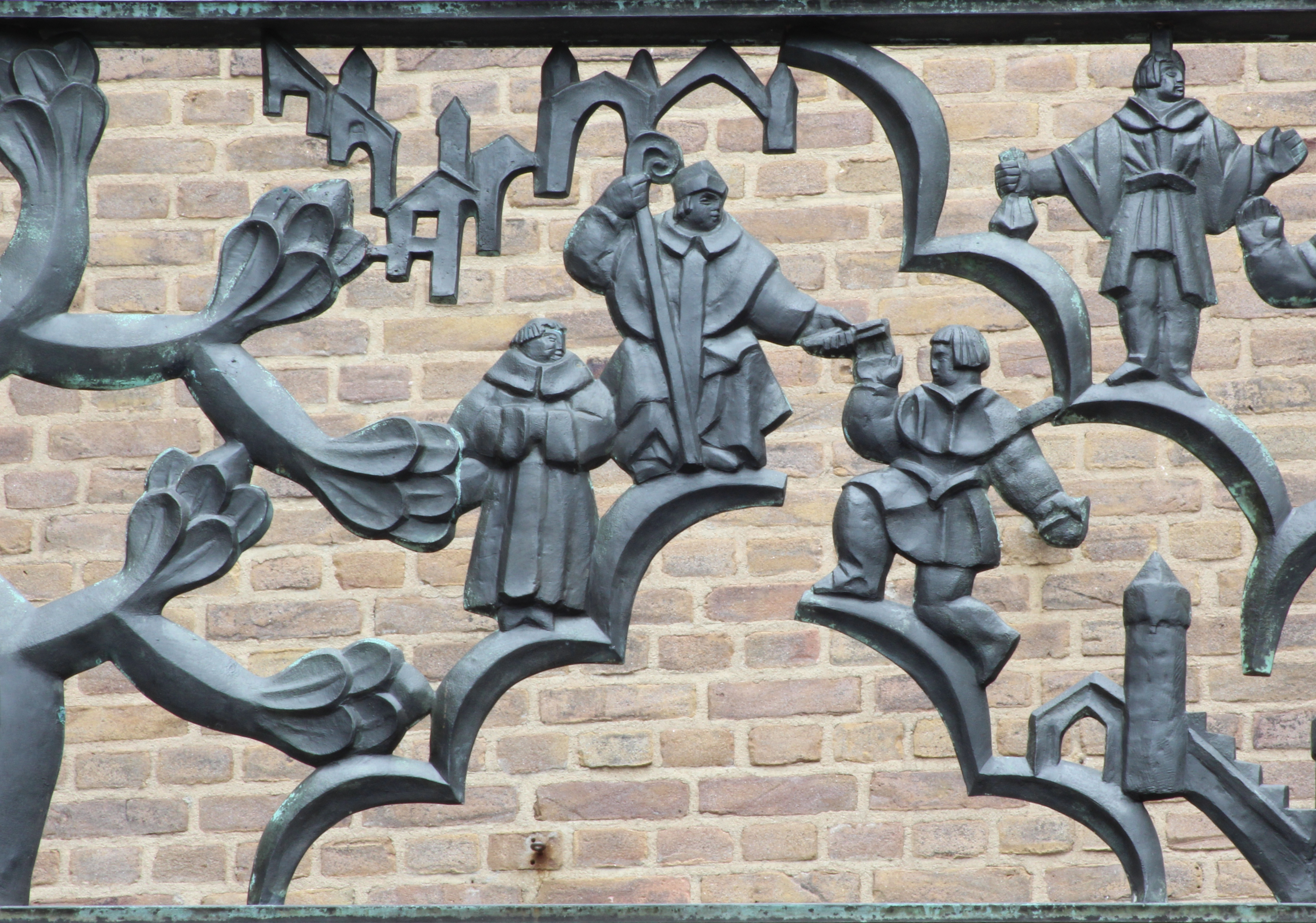 Cityhall of Enschede, Balcony railing, Detail. Enschede gets city rights. Designed by Frits van Hall.